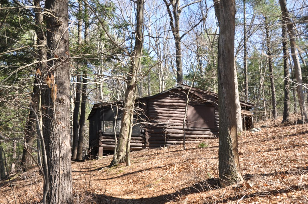 The "Folsom Cabin", one of the historic buildings at the Ponkapoag Camp of the Appalachian Mountain Club in Randolph, Massachusetts, part of the Blue Hills Reservation.